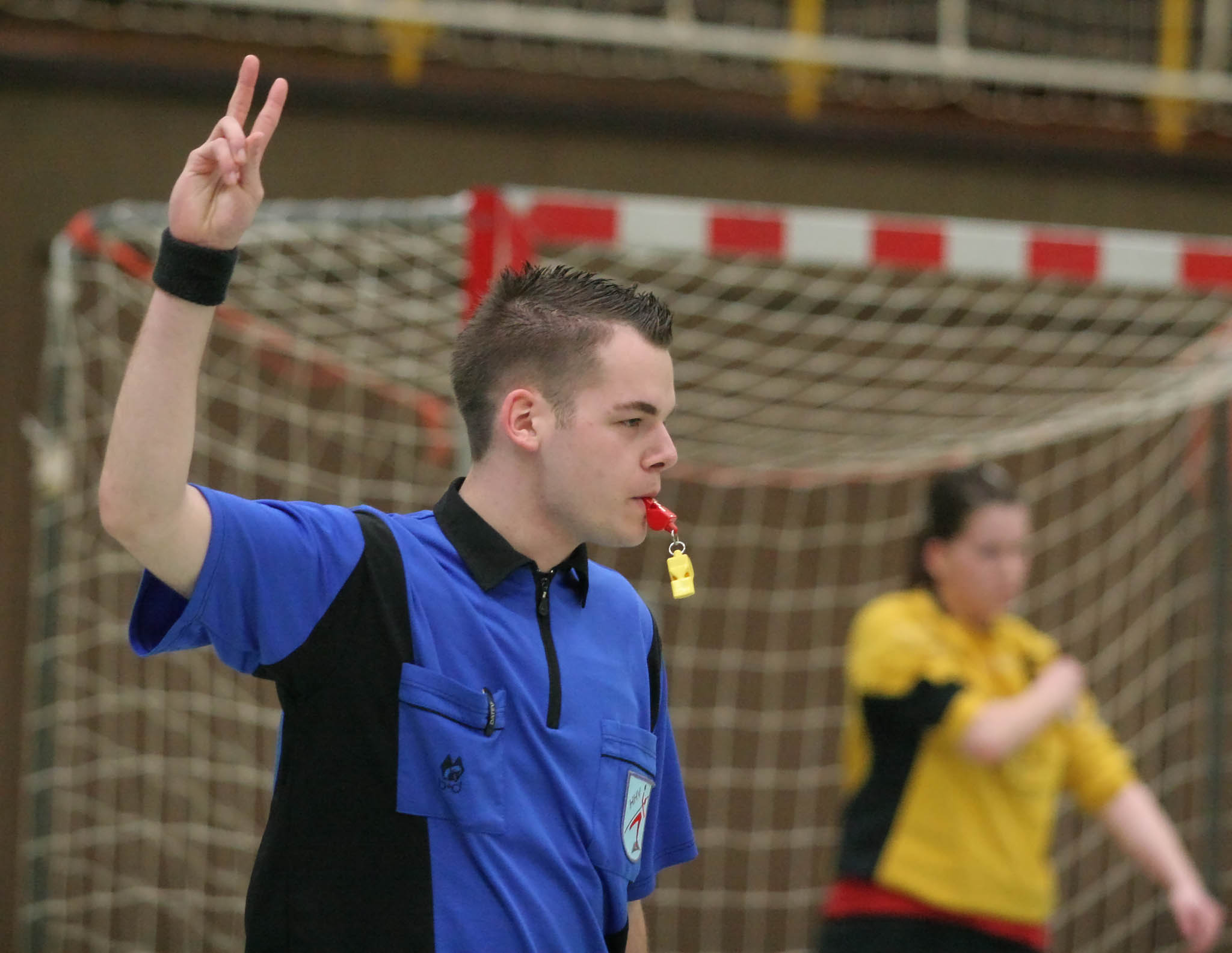 2 minutes suspension, shown by the referee (Florian Becker) during a handball game (HSG Bensheim/Auerbach - MTV Mundenheim), on April 2nd, 2009 in the Weststadt Hall in Bensheim (Germany).